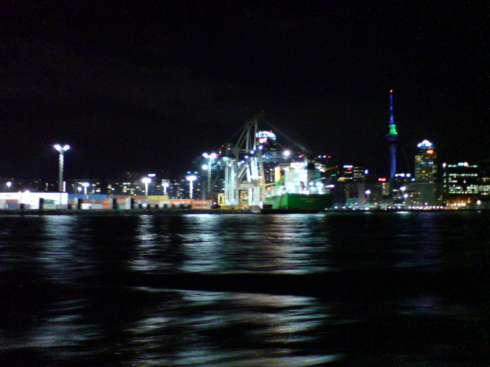 The Port of Auckland, Auckland City, New Zealand, seen from the Waitemata Harbour at night, showing the 24/7 operations.